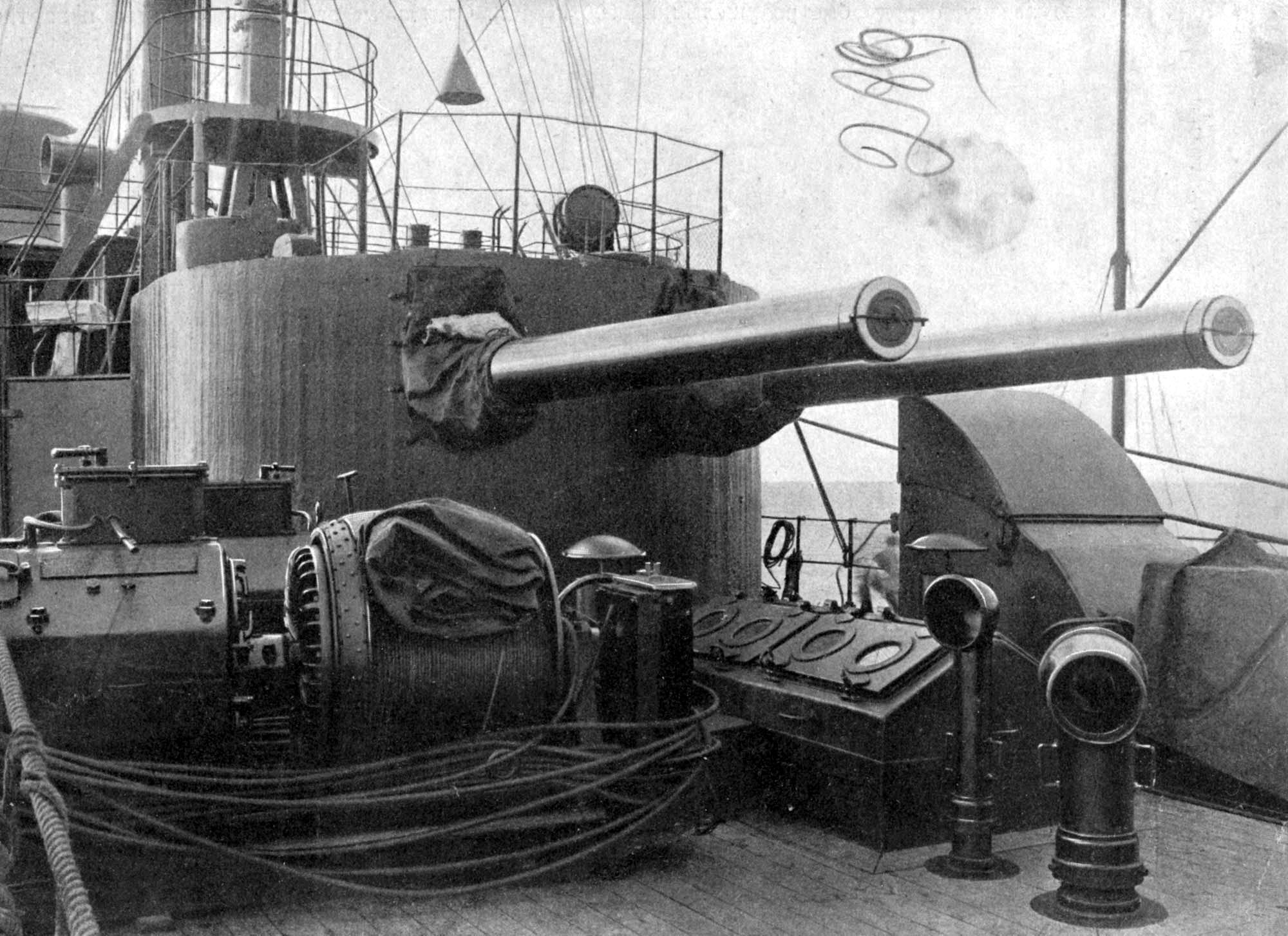 The Imperial Russian first rank cruiser «Oleg» in 1905.